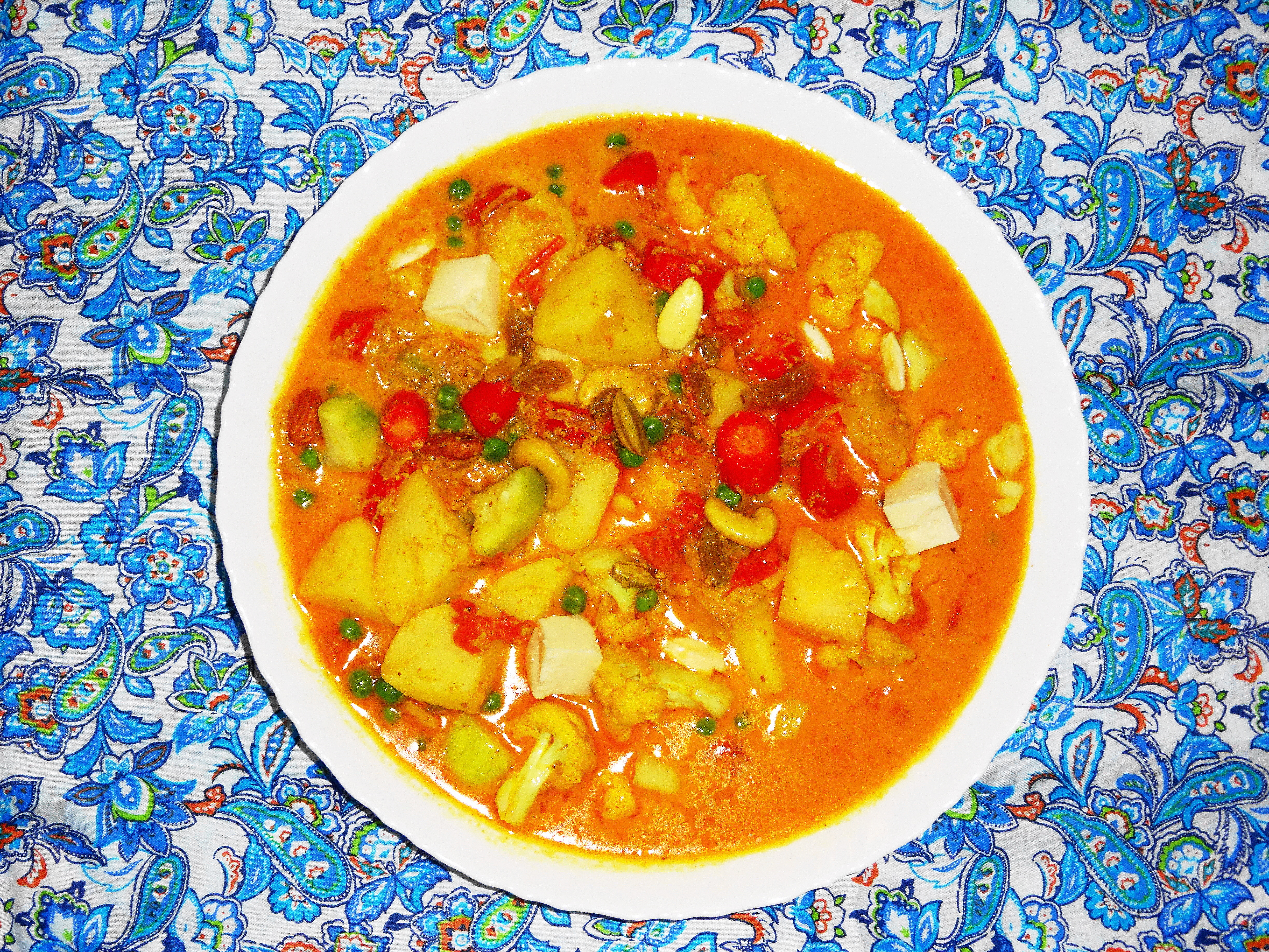 Nine jewels Korma